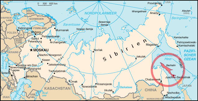 Position of Sachalin island